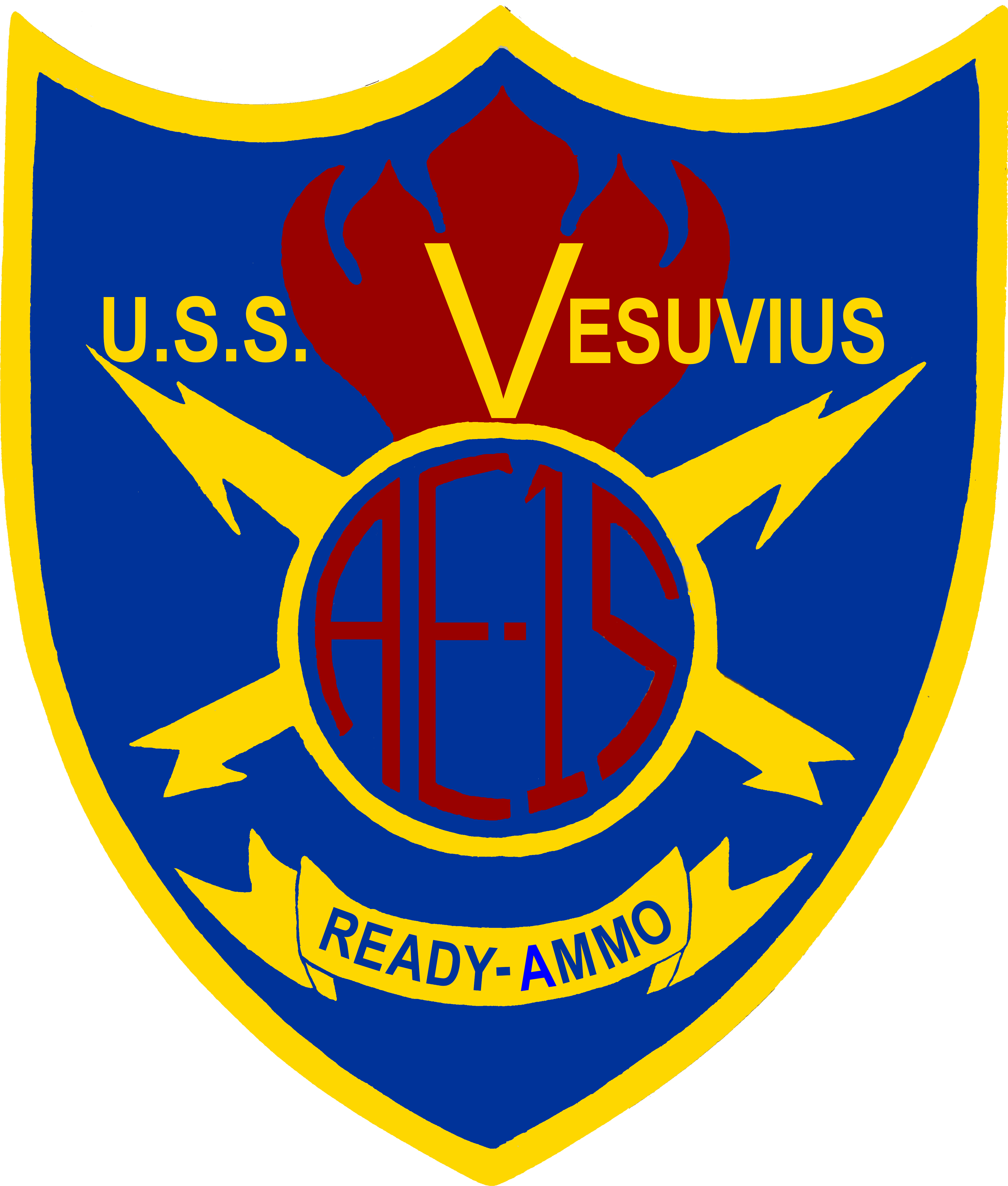 Insignia of the U.S. Navy ammunition ship USS Vesuvius (AE-15), circa in the 1960s.